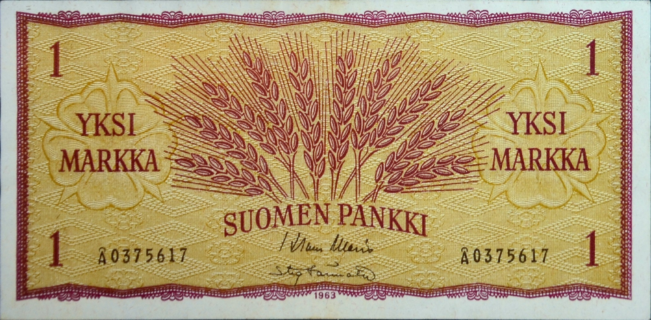 A finnish 1 mark banknote